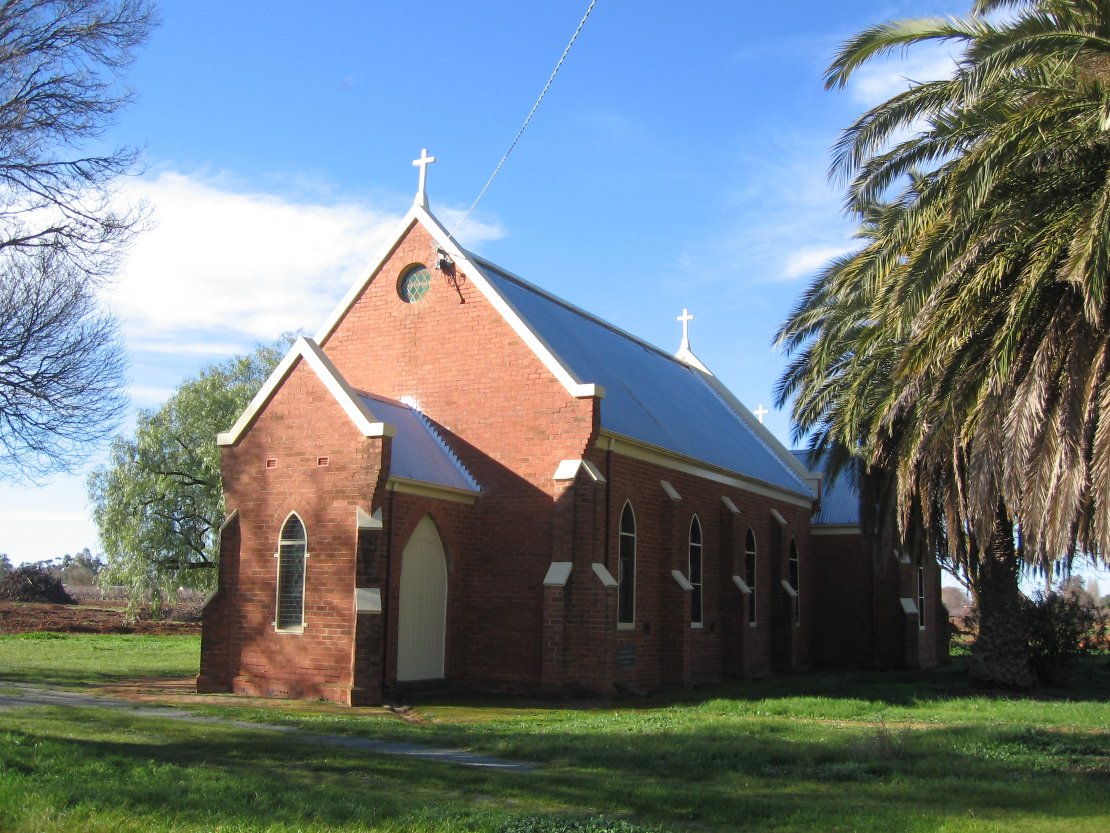 Holy Trinity Anglican Church at Ardmona, Victoria